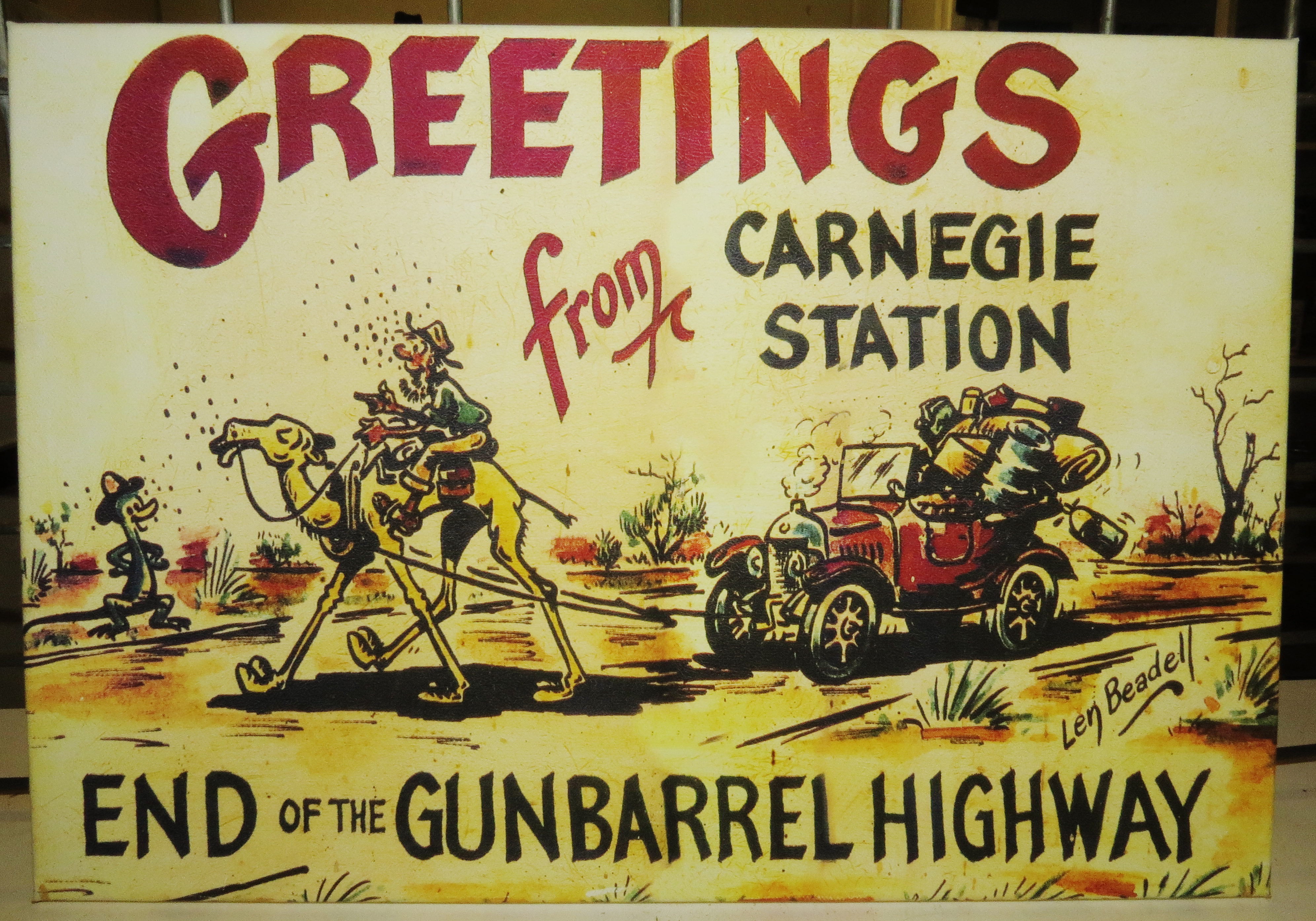 Photograph of Carnegie Station artwork by Len Beadell signifying completion of construction of the Gunbarrel Highway.